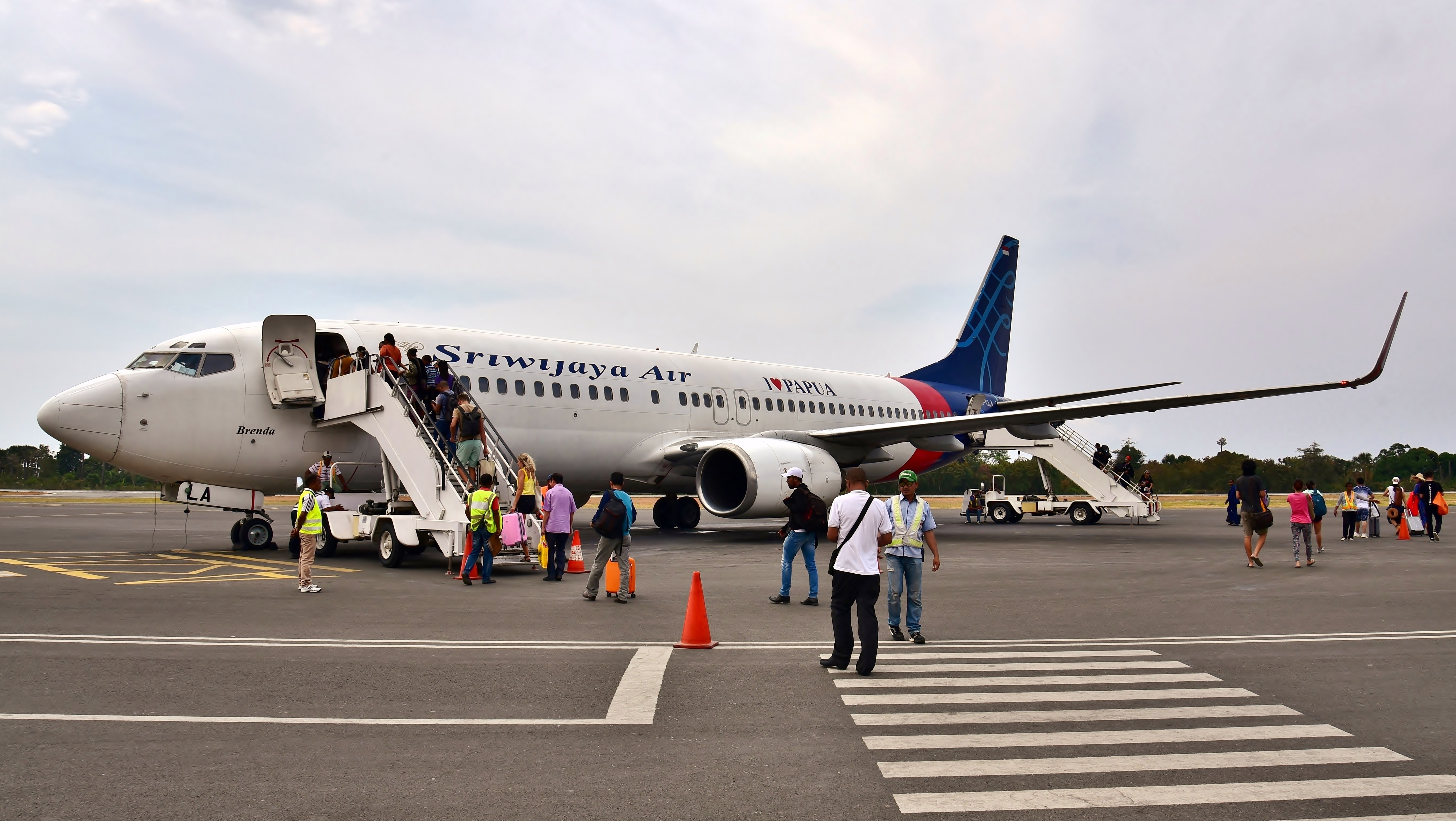 Sriwijaya Air Boeing 737 PK-CLA at Presidente Nicolau Lobato International Airport, Dili, East Timor